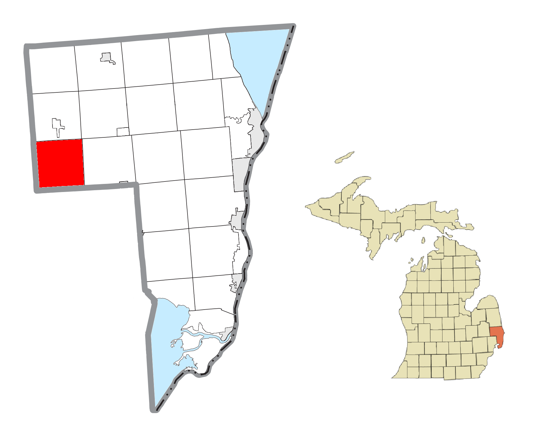 Berlin Township (St. Clair), MI